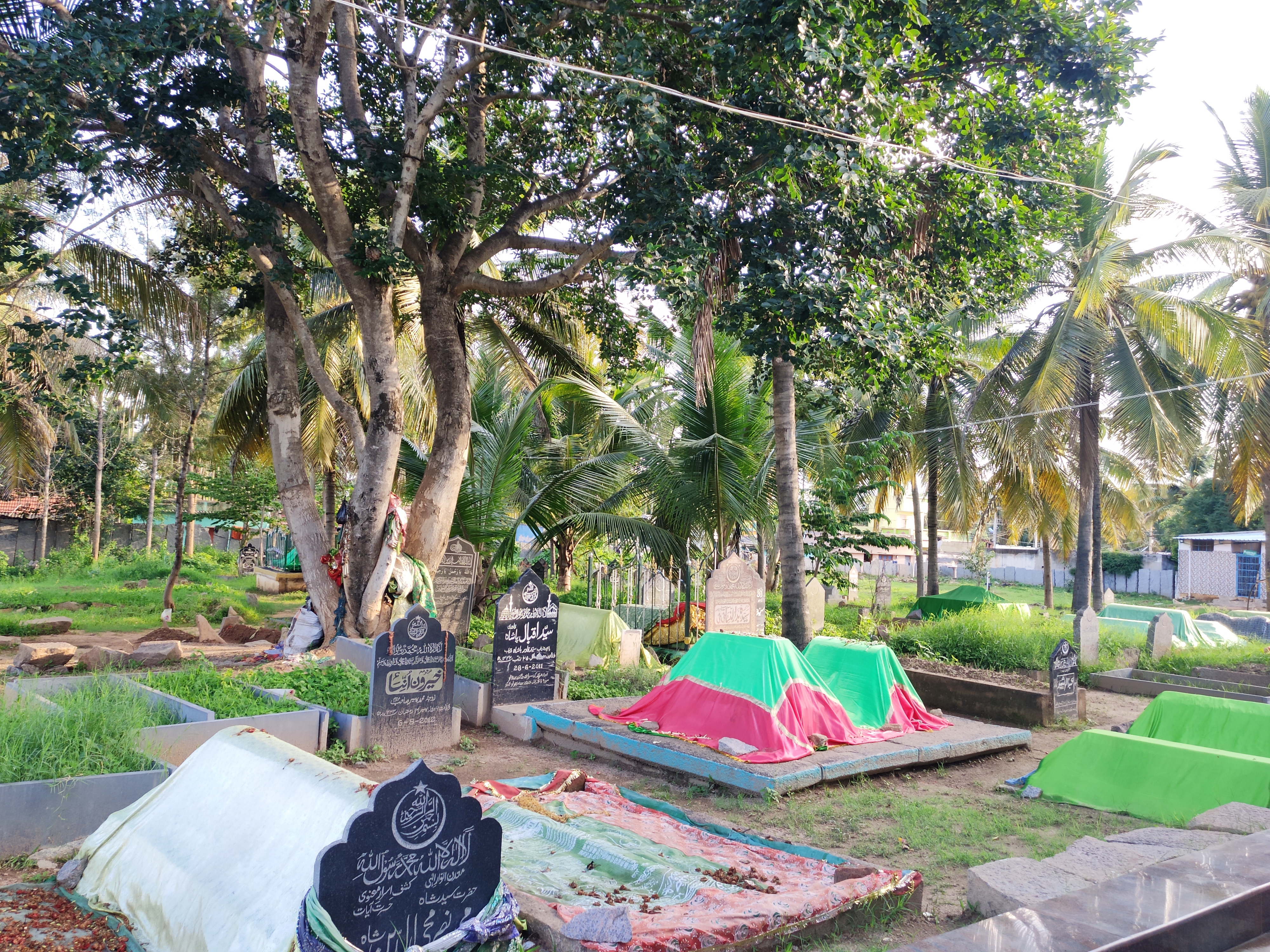 قبرستان، کیسرمڈو، ٹمکور